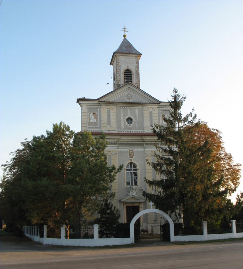 Church of Jahodná